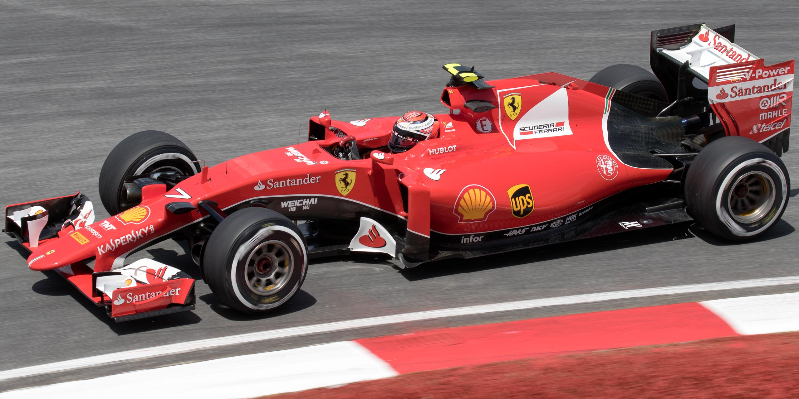 Formula One 2015 Rd.2 Malaysian GP: Kimi Räikkönen (Ferrari)